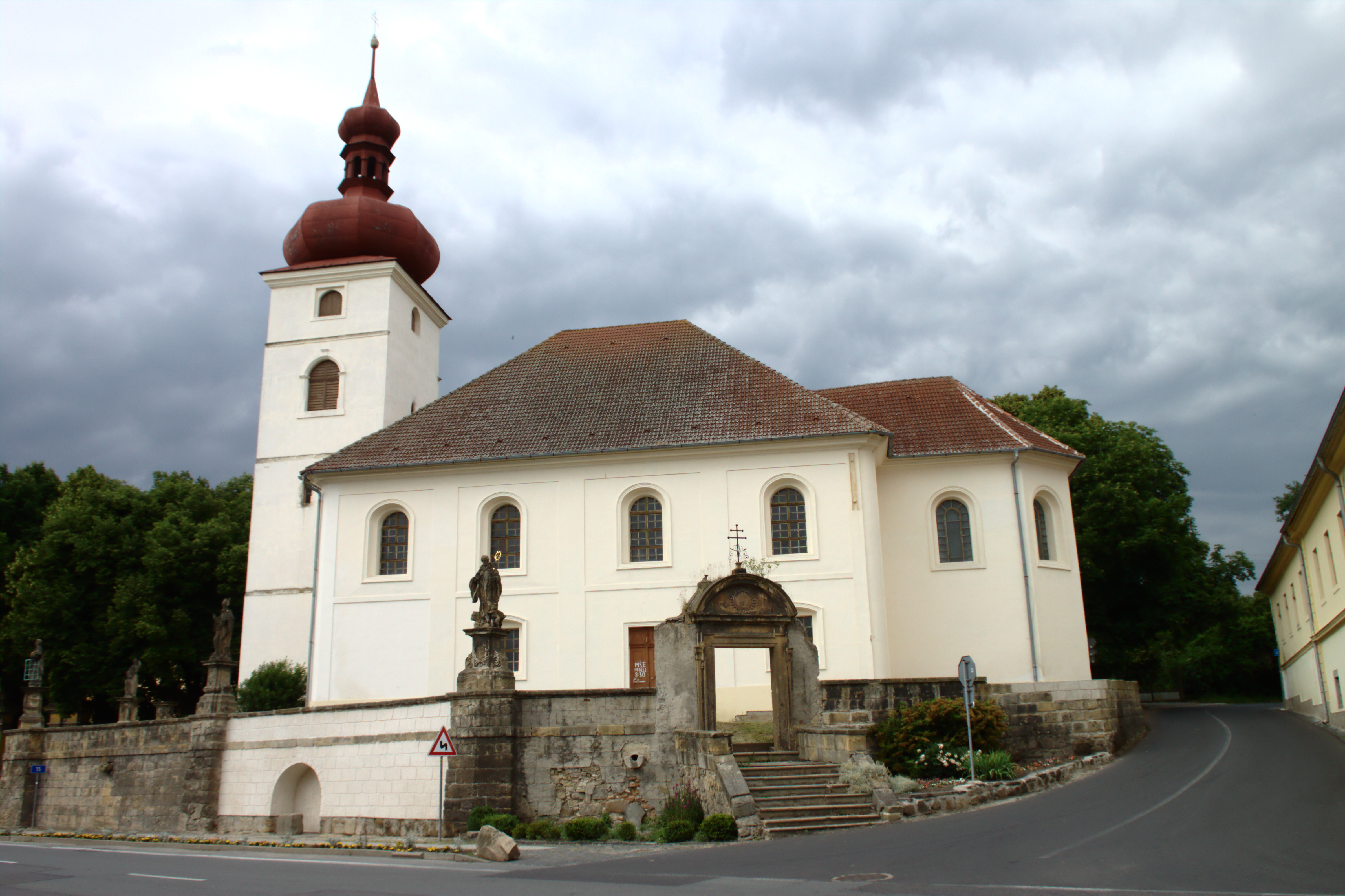 Main church in Liběšice, Ústí Region, CZ